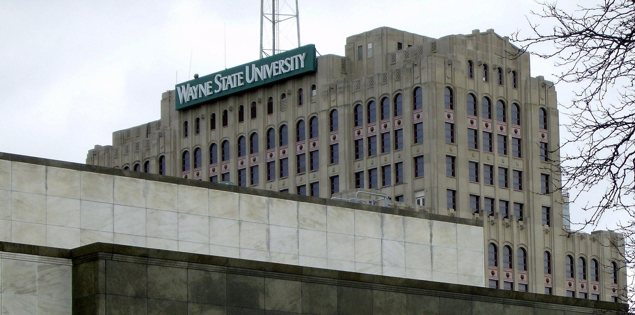 Maccabees Building, the former headquarters of Detroit Public Schools